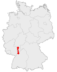 Course Map of Bergstrasse